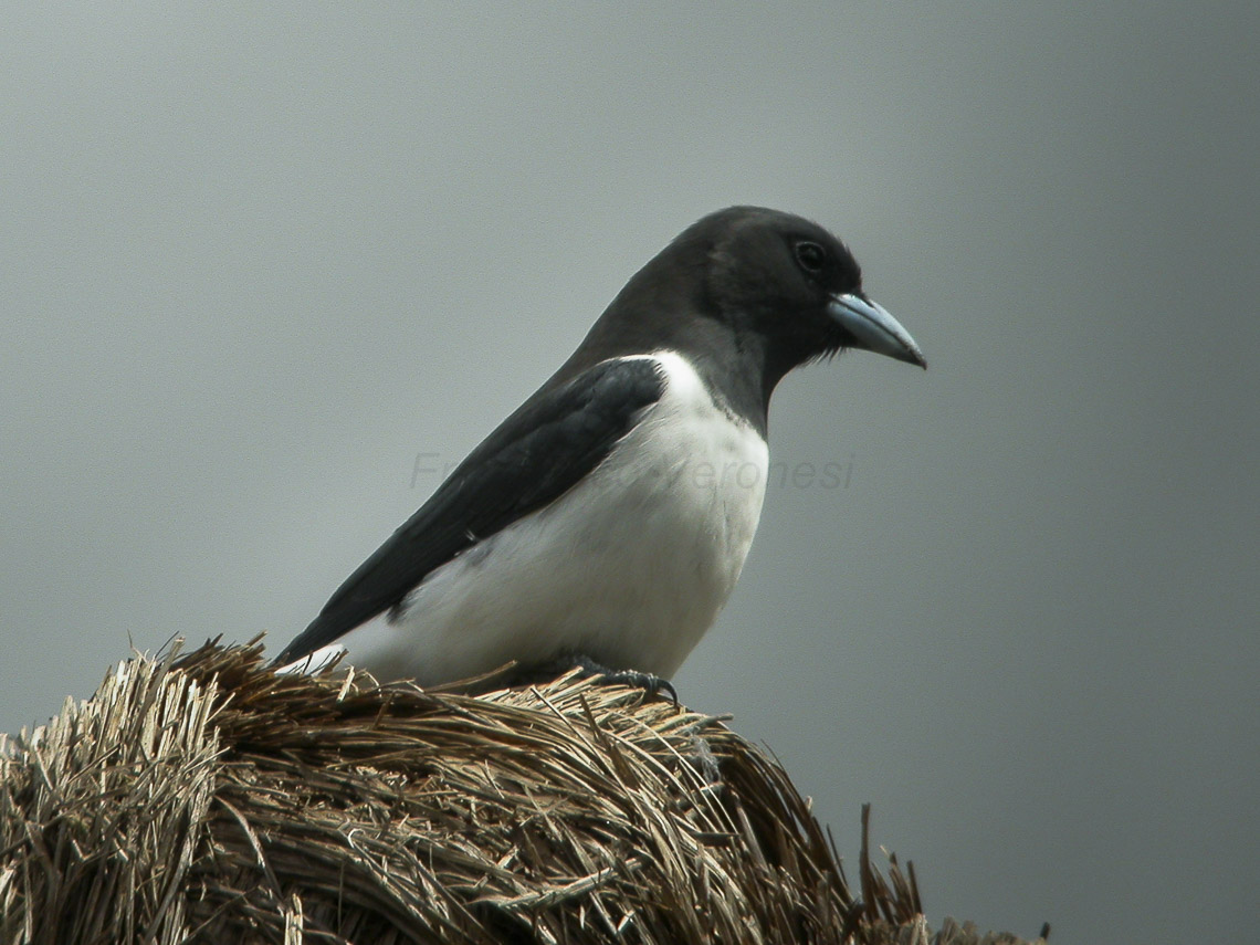 Great Woodswallow - Papua New Guinea